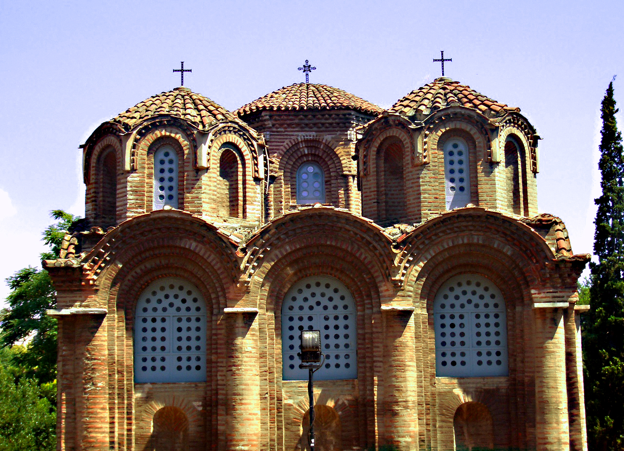 The Byzantine Church of Panagia Chalkeon in Thessaloniki